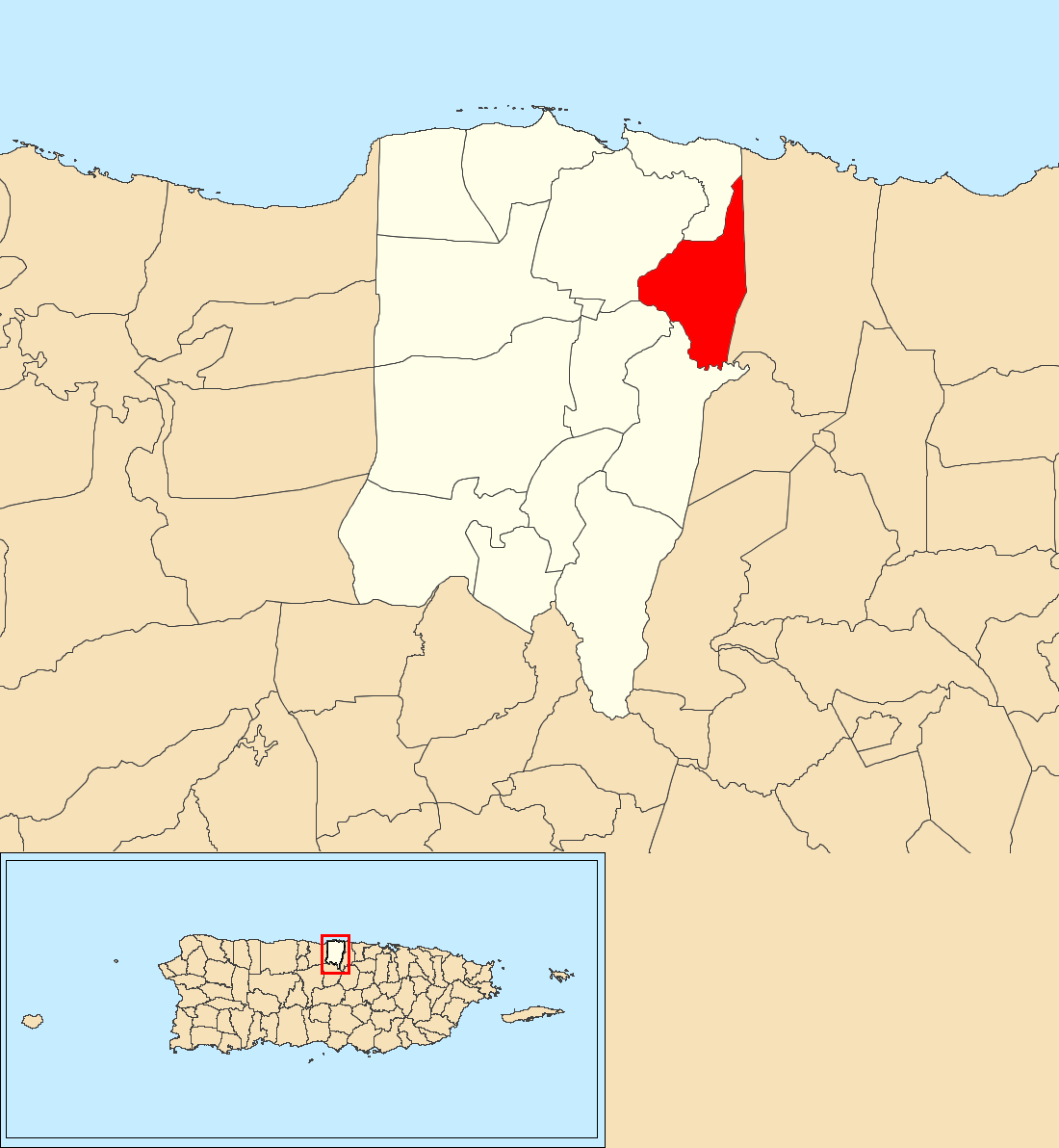 Ceiba, Vega Baja, Puerto Rico locator map